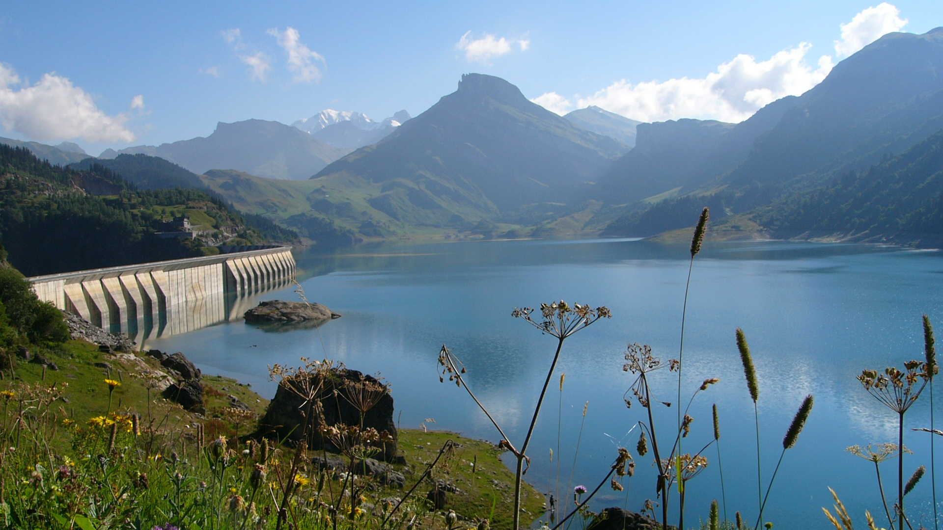 Barrage de Roselend; view of Lac de Roselend.